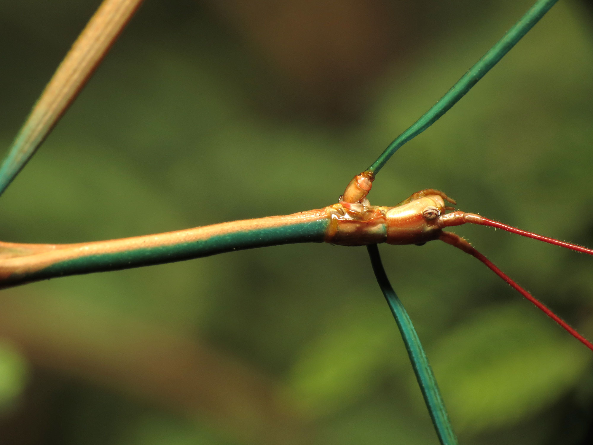 Diapheromera arizonensis. Molino Basin, Santa Catalina Mountains, Pima County, Arizona, USA. 18 September 2012.